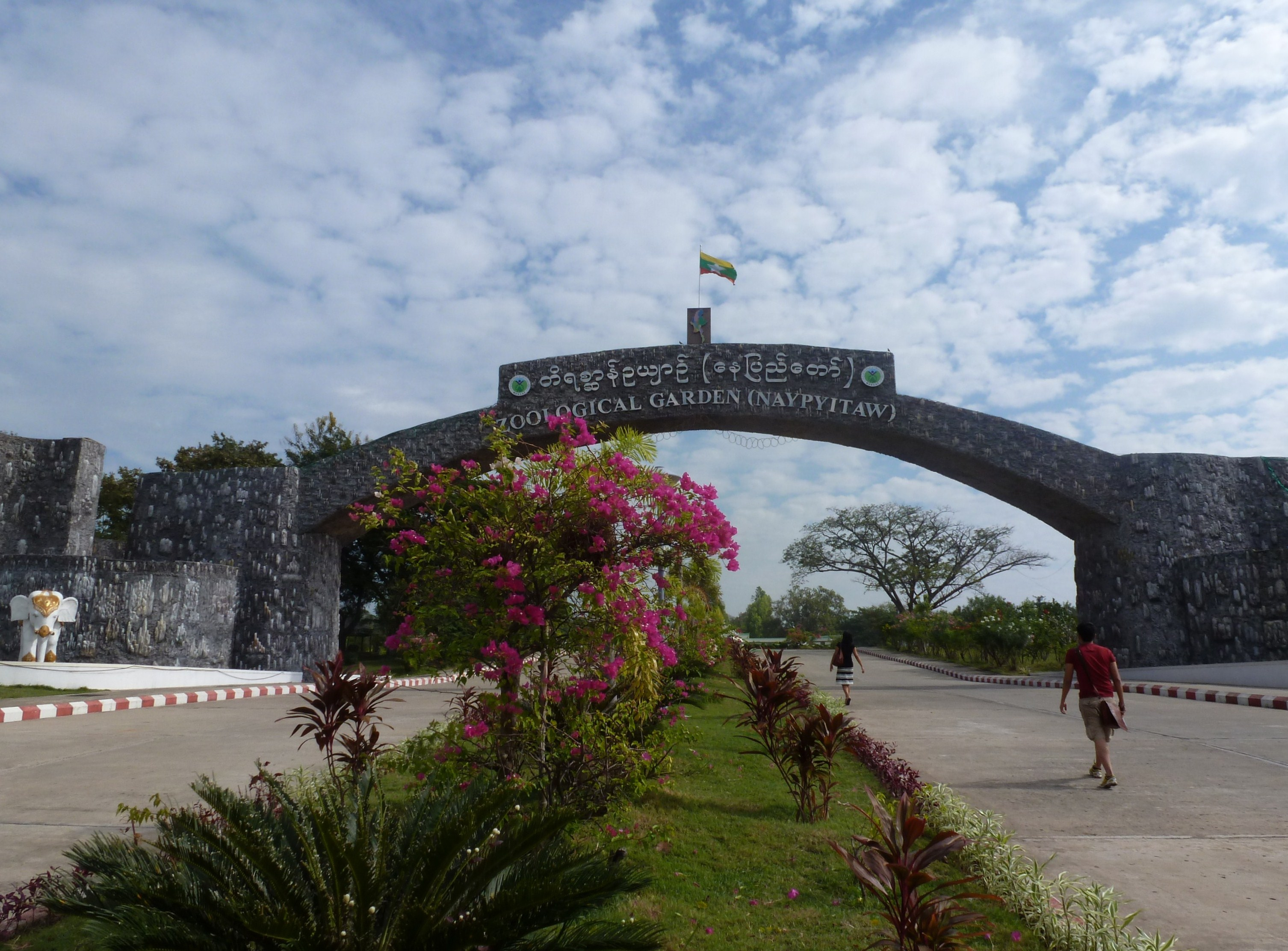 The Naypyidaw Zoo entrance